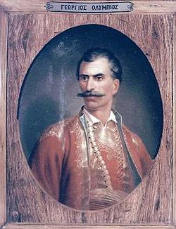 Georgakis Olympios – (1772 - 1821) Greek Fighter of the 1821 Revolution Γεωργάκης Ολύμπιος